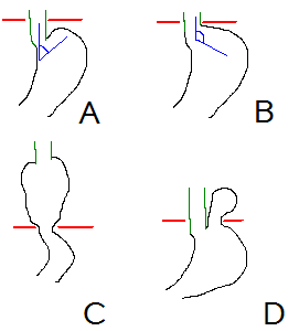 Schematic diagram of different types of hiatus hernia. Green is the esophagus, red is the diaphragm, blue is the HIS-angle. A is the normal anatomy B is a pre-stage C is a sliding hiatal hernia D is a paraesophageal type